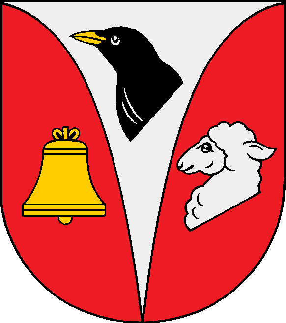 Coat of arms of the municipality Krukow in Schleswig-Holstein, Germany.